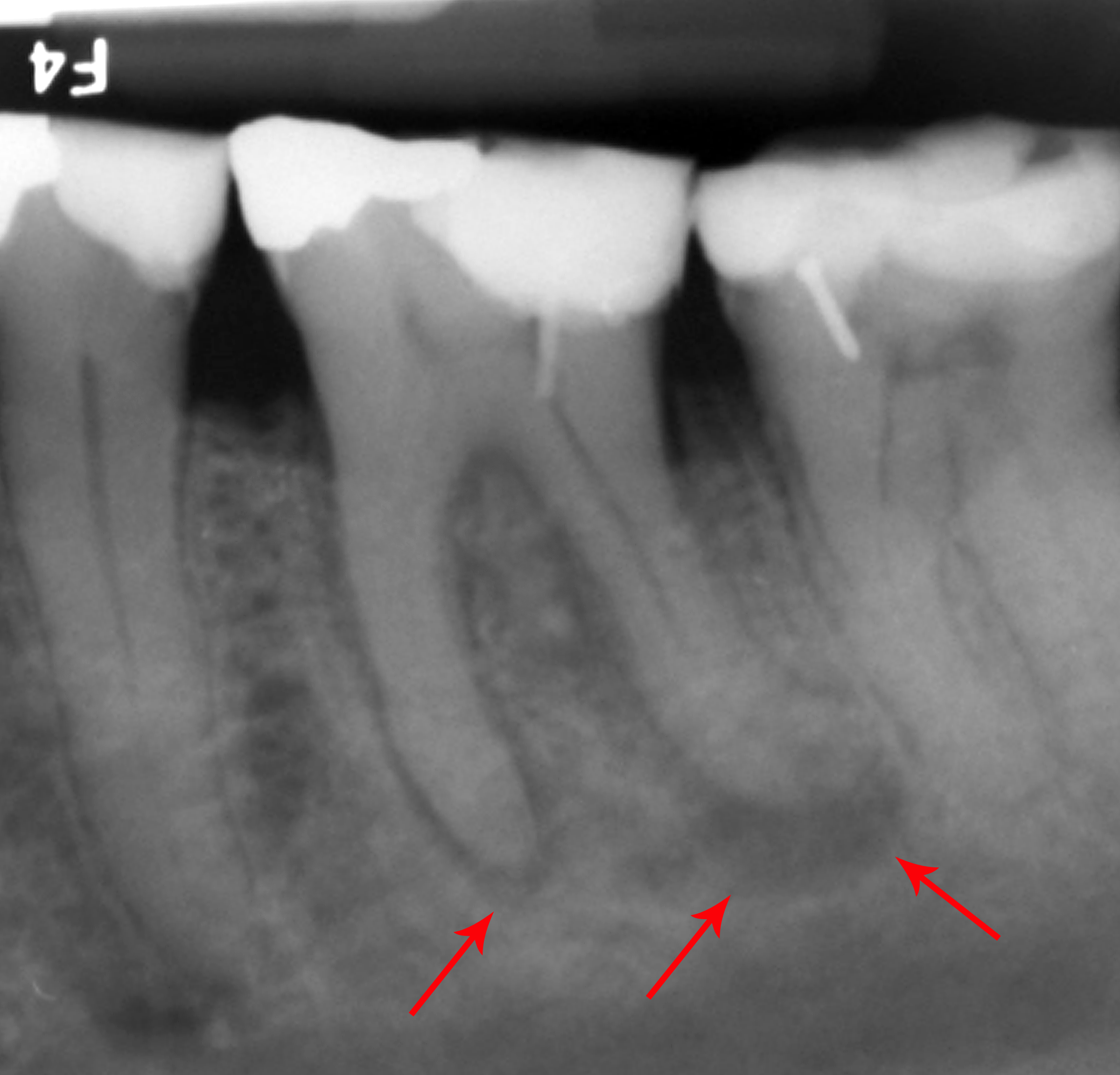 An xray of tooth #3.6 with periapical abscess on both roots